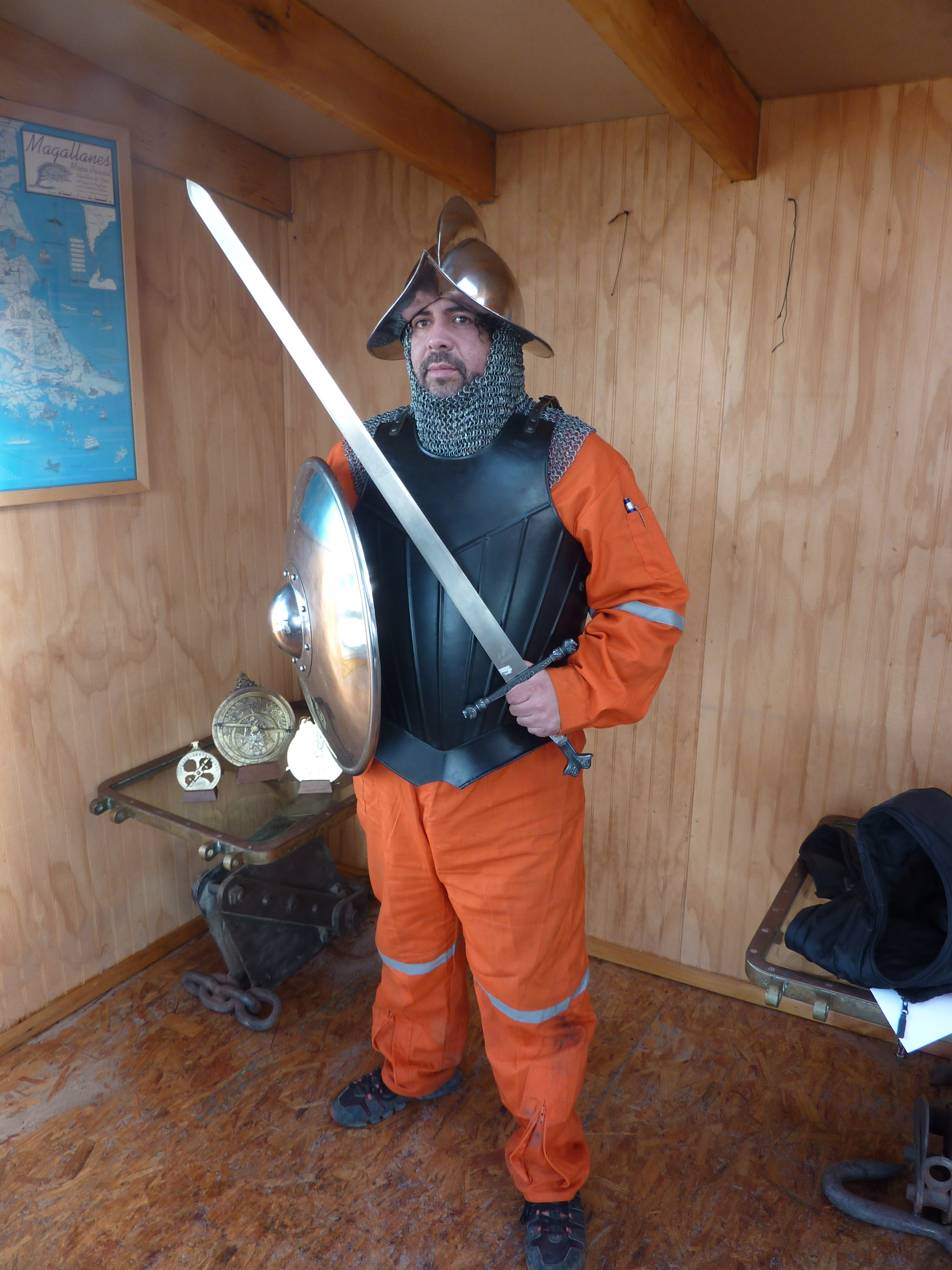 Museo Nao Victoria Punta Arenas Chile un visitante vestido de soldado de la armada española